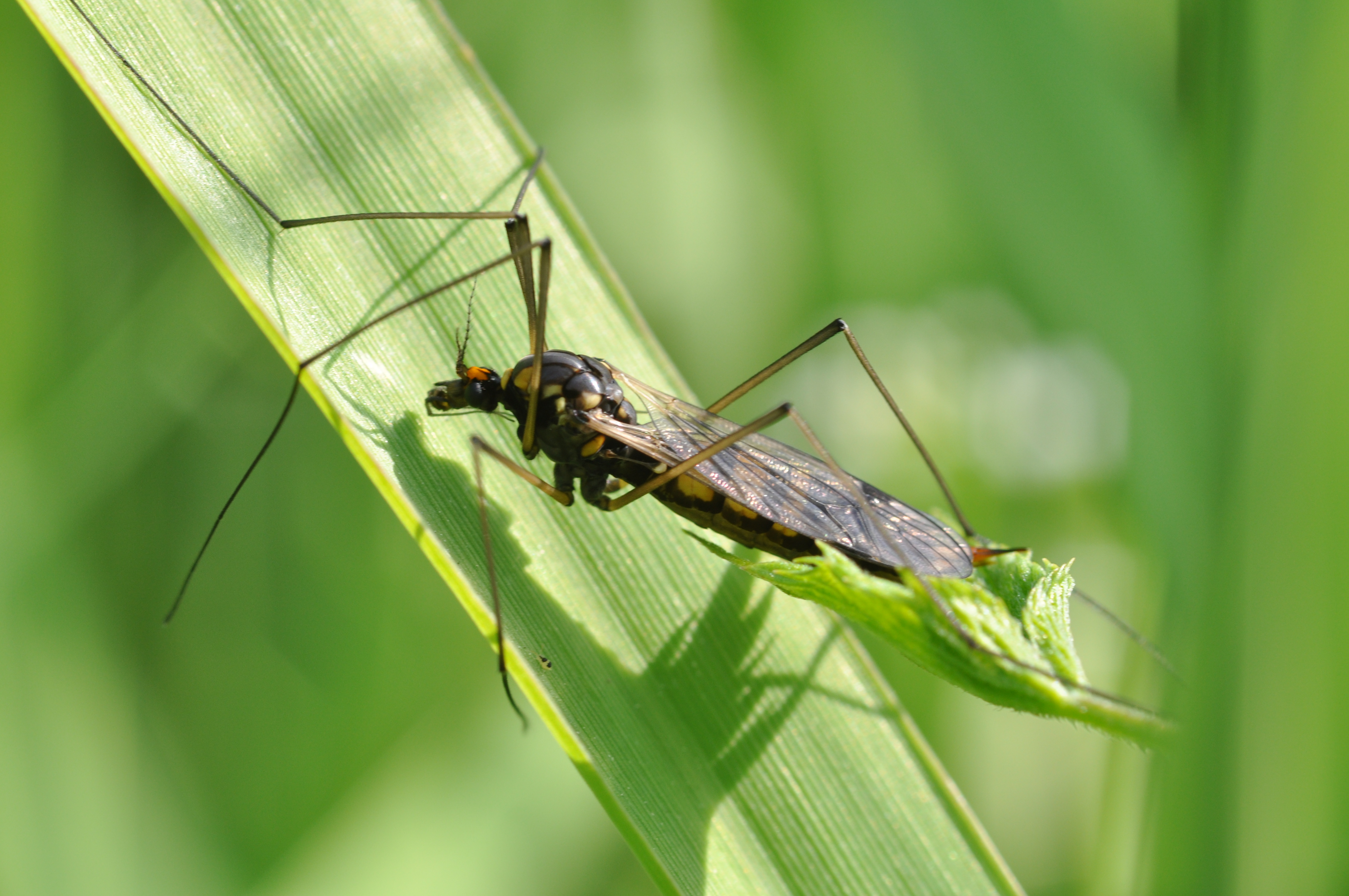 Nephrotoma crocata in Kirchwerder, Hamburg.